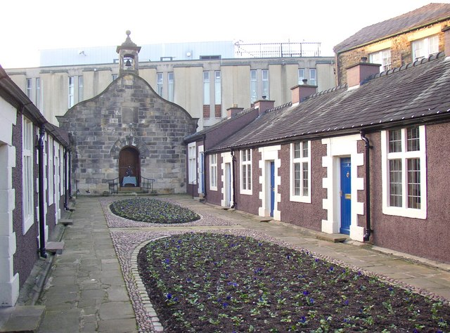 Penny's Hospital, King Street, Lancaster These almshouses were built in 1720, still in a 17C style. The chapel is at the end, with a shaped gable. The buildings were restored in 1974 and are still used for their original purpose. An income is generated by the adjacent Assembly Rooms.